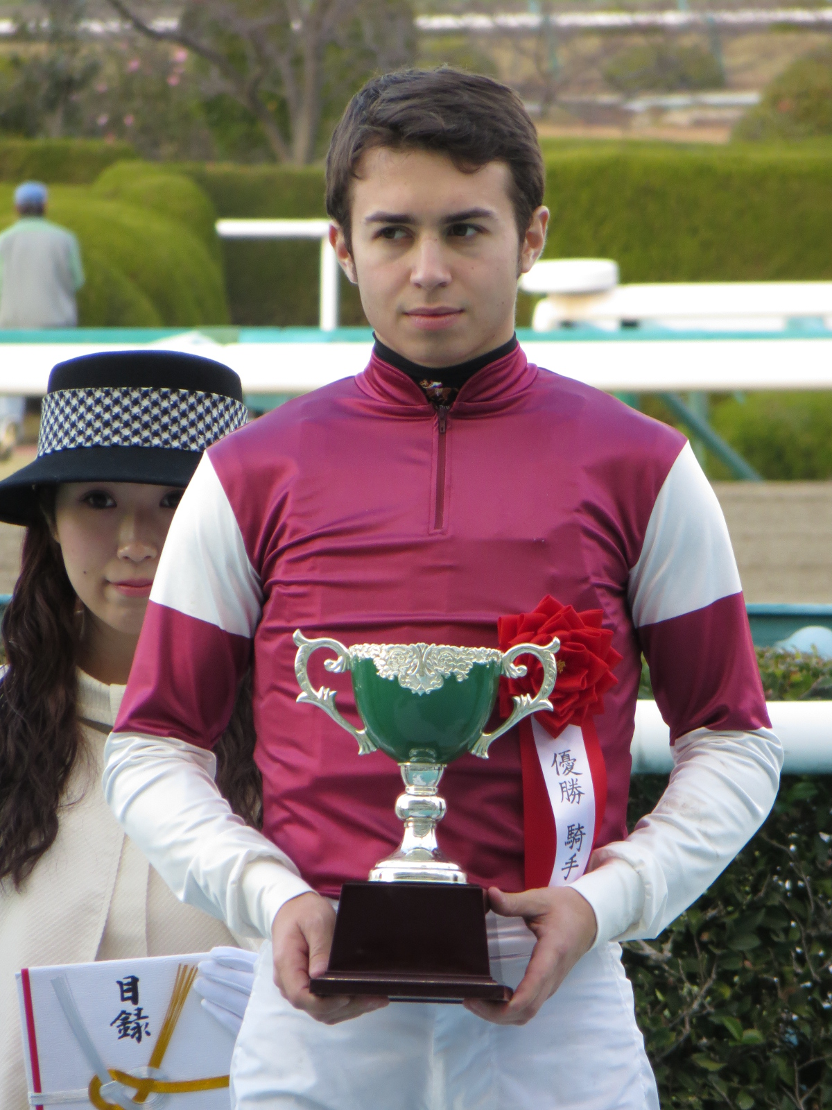 Mickael Barzalona (Jockey from France) in Hanshin Racecourse.